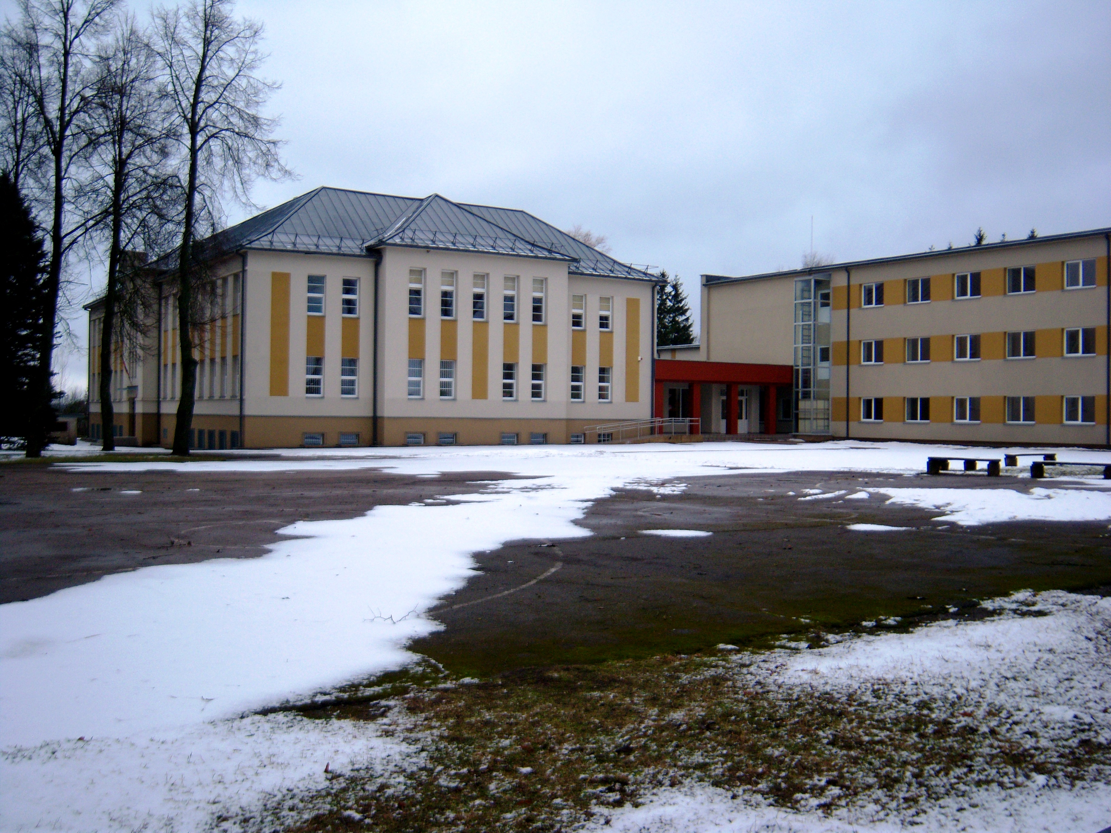 Kavarskas secondary school, Lithuania